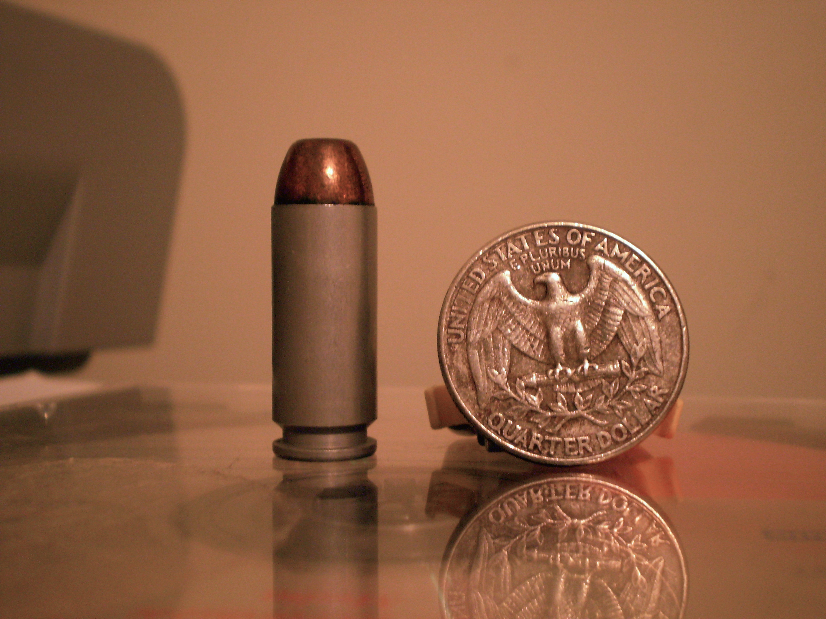 I took this photo myself.